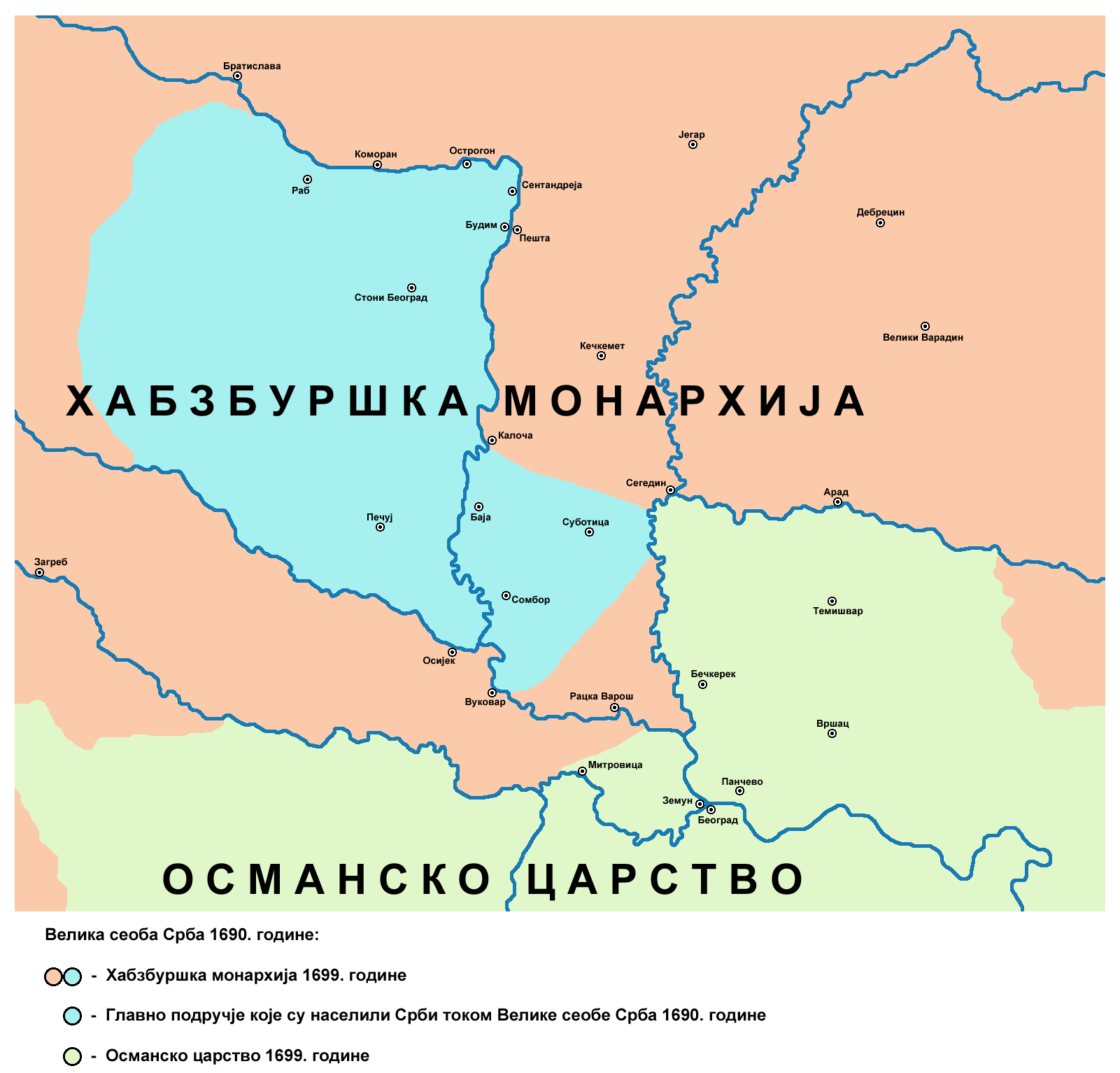 Map that show Great Serb migration in 1690.